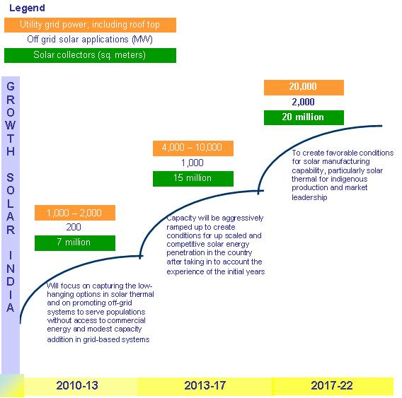 National Solar Mission for increasing share of solar energy in India's energy portfolio